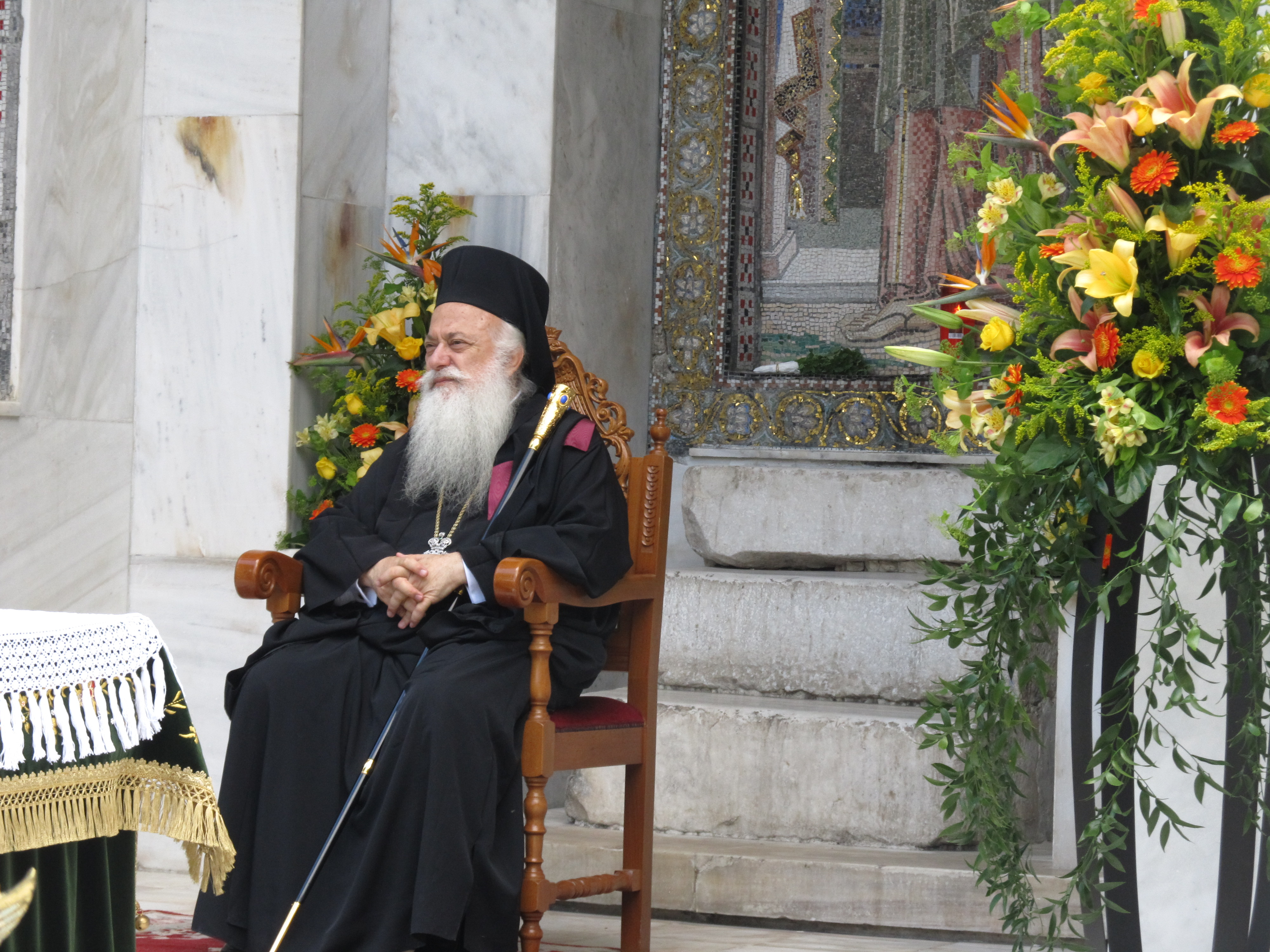 The Metropolitan of Veria (Ber) Panteleimon Kalpakidis